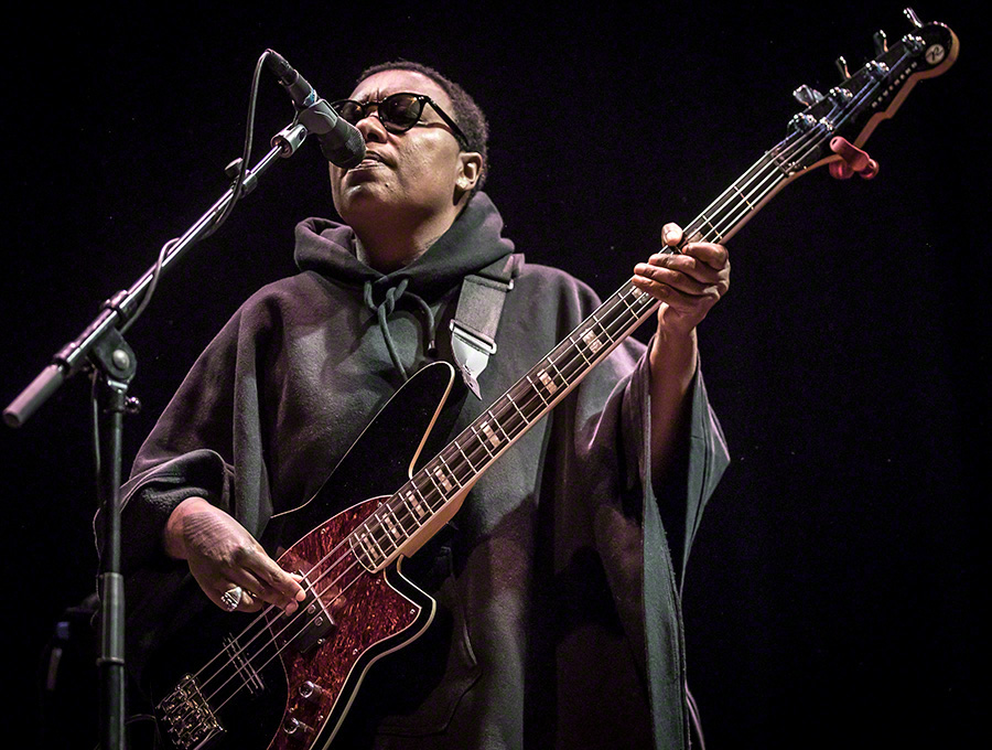 MeShell NdegeòCello at the main stage of Cosmopolite. The concert took place on 08. October 2016 in Oslo.Lineup: MeShell NdegeòCello (bass and vocal), Chris Bruce (guitar), Jebin Bruni (keyboard), Abraham Rounds (drums)